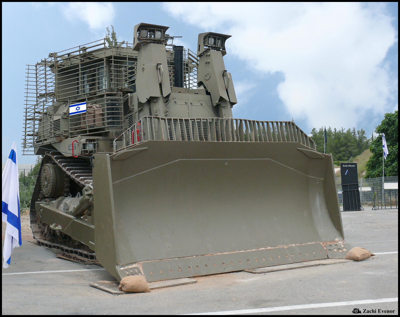 IDF Caterpillar D9 armored bulldozer - Israel 66th Independence Day